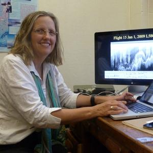 Robin Bell in her office at the Lamont-Doherty Earth Observatory